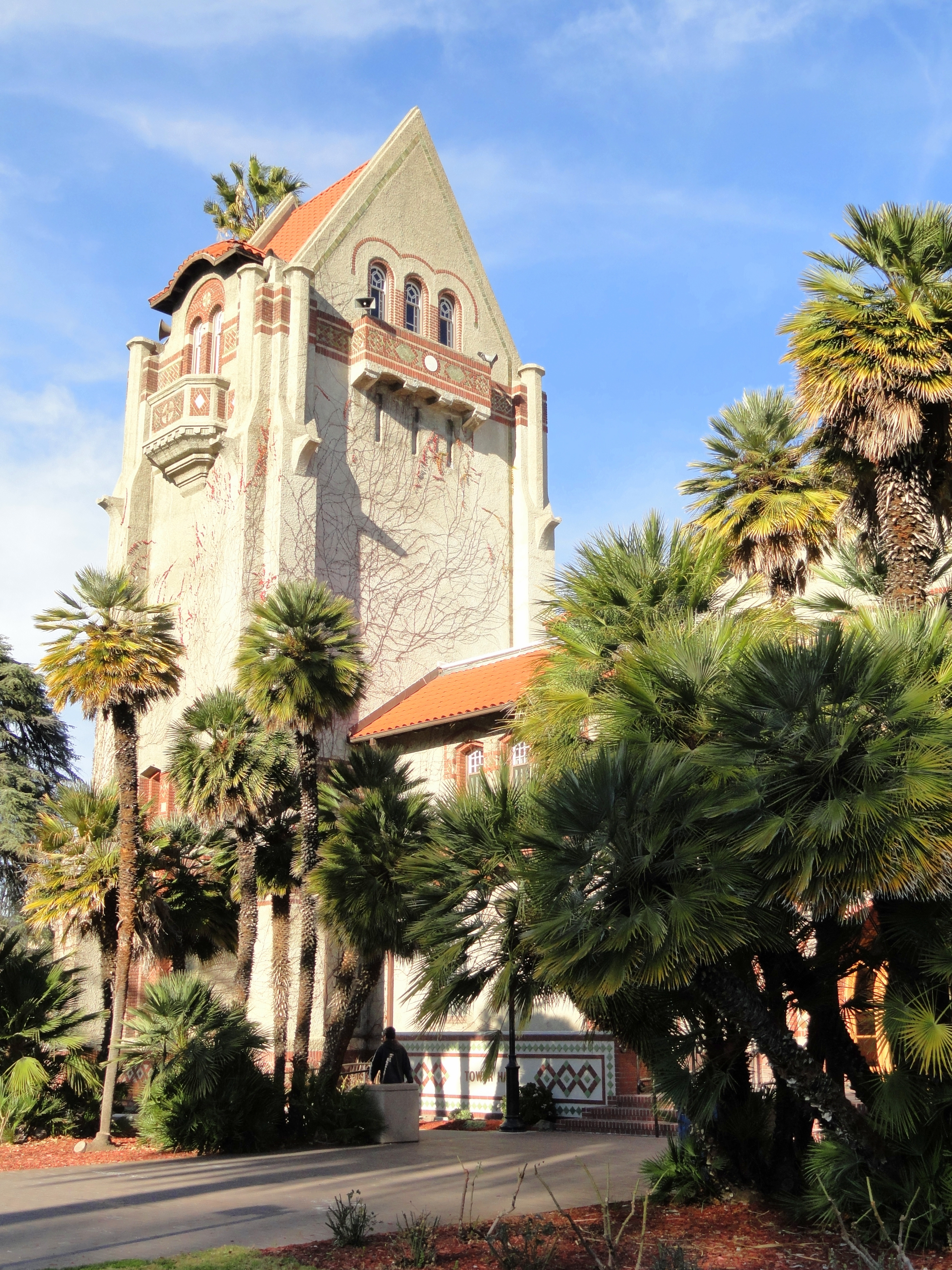 Tower Hall, San José State University, San Jose, California, USA.